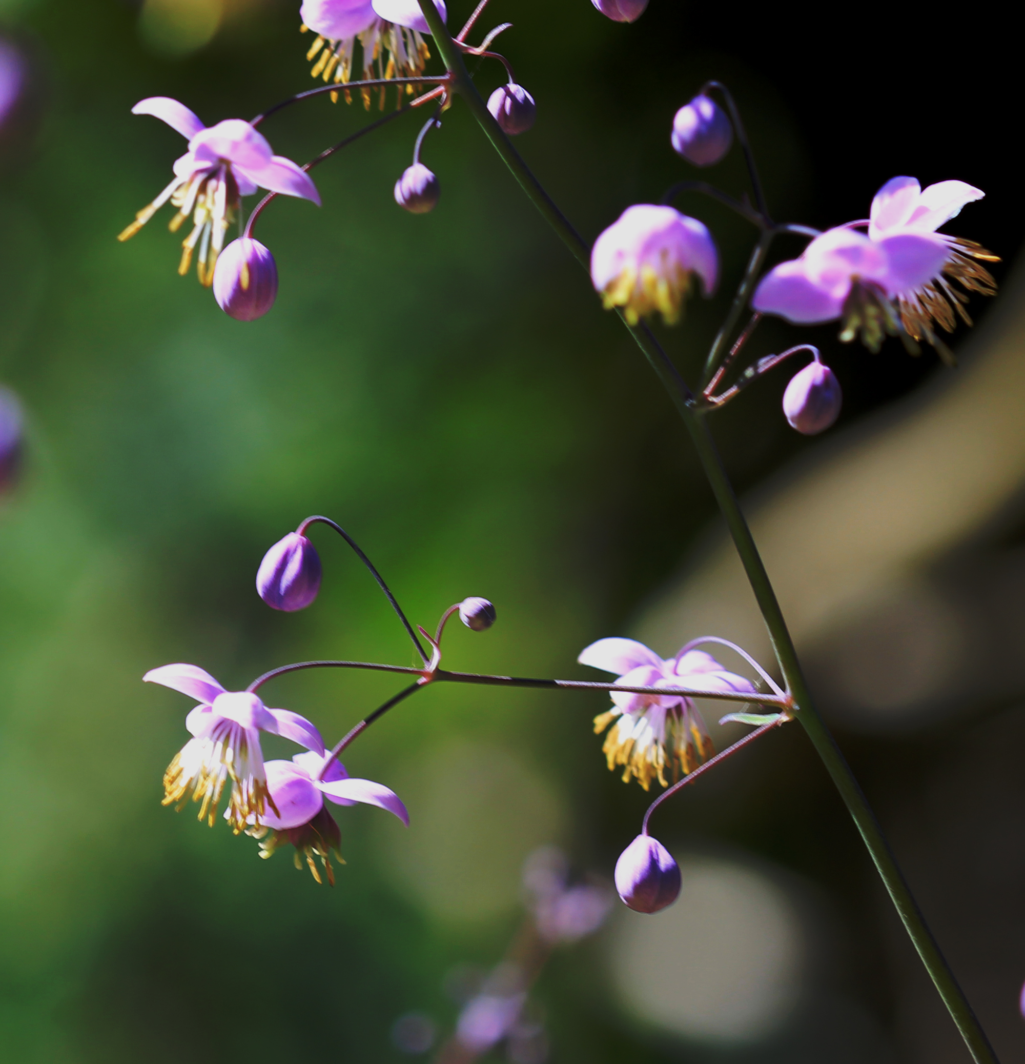 Detail of the flowers of plant Thalictrum delavayi or Thalictrum dipterocarpum from the Botanical Gardens of Charles University, Prague, Czech Republic